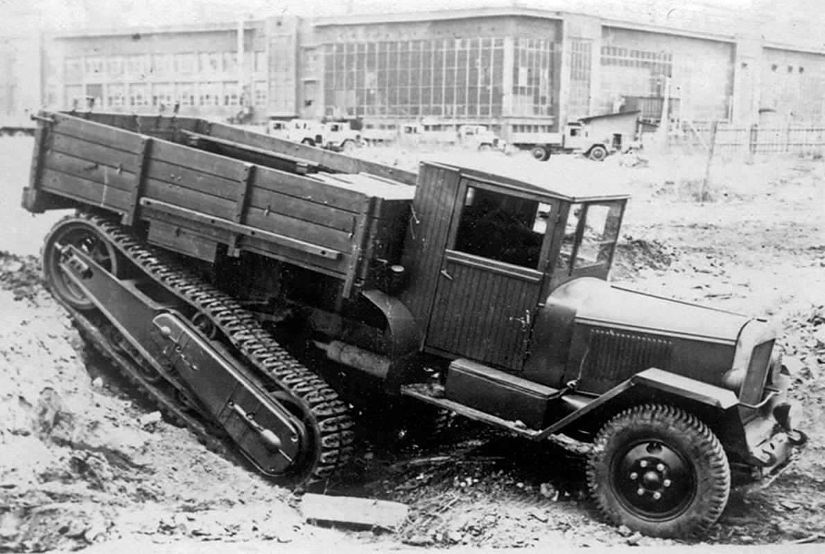 Test drive of ZiS-42